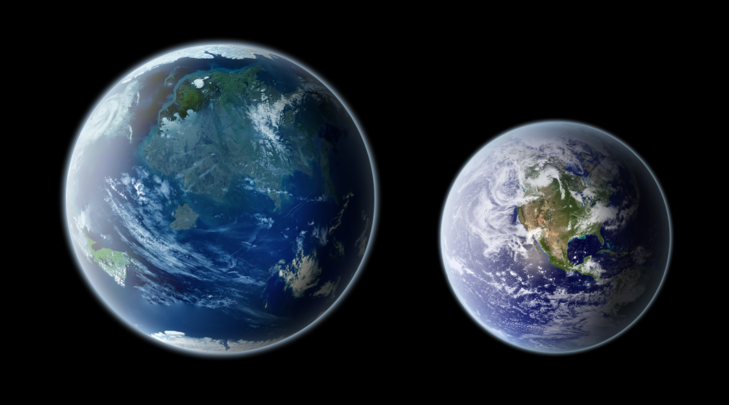 Approximate size comparison of Kepler-442b (left) with Earth